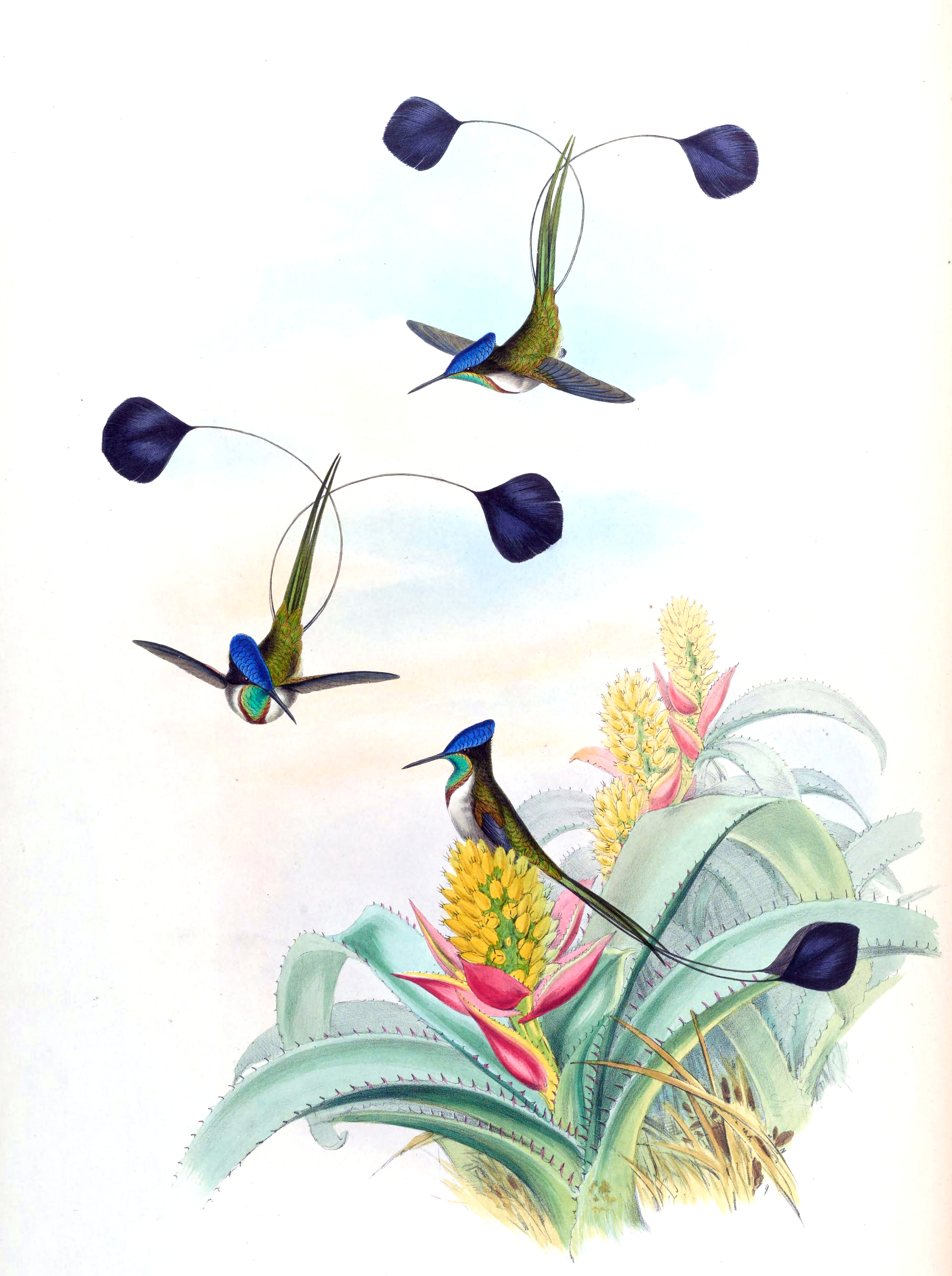 Illustration of Loddigesia mirabilis (hummingbird) on Aechmea mertensii (as syn. A. mucroniflora) (bromeliad)